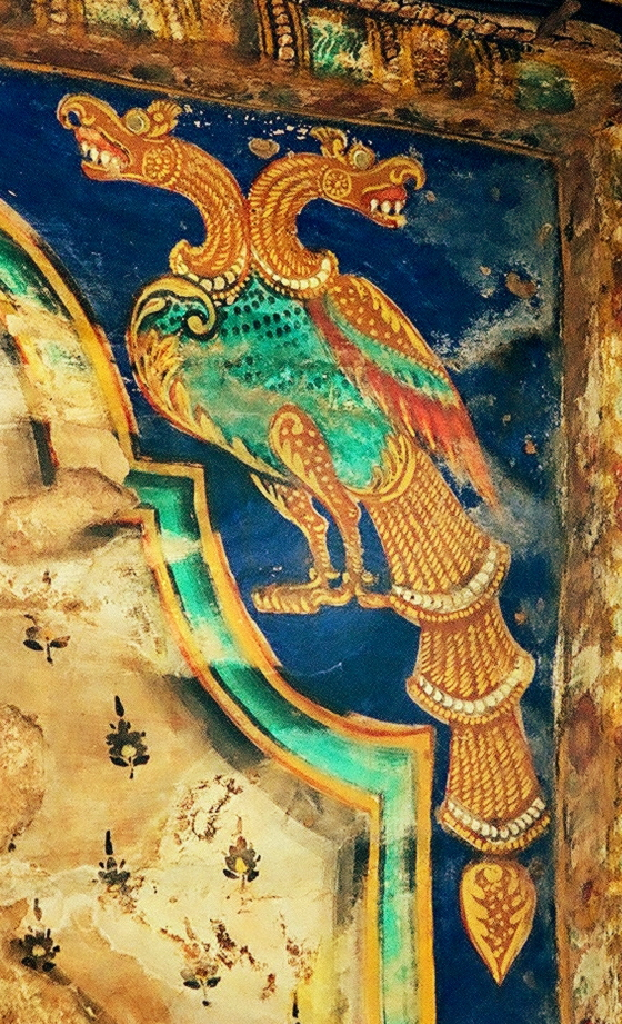 The double headed mythological bird of exceedingly great prowess. In the puranas, Vishnu is said to have assumed this form to vanquish Sarabha (which in turn was the form assumed by shiva to vanquish the Narasimha form of Vishnu, when all gods were terrorized by it). The bird is said to be mentioned in Rg-Veda as the Golden winged bird (Suparna)......[Pratima Kosha,Vol II, S.K.Ramachandra Rao, Kalpatharu Research Academy Publication] Here we find the Ganda-bherunda as a decorative motif in the ceiling painting of the Nandi mandapam of Thanjavur Brihadiswara temple.